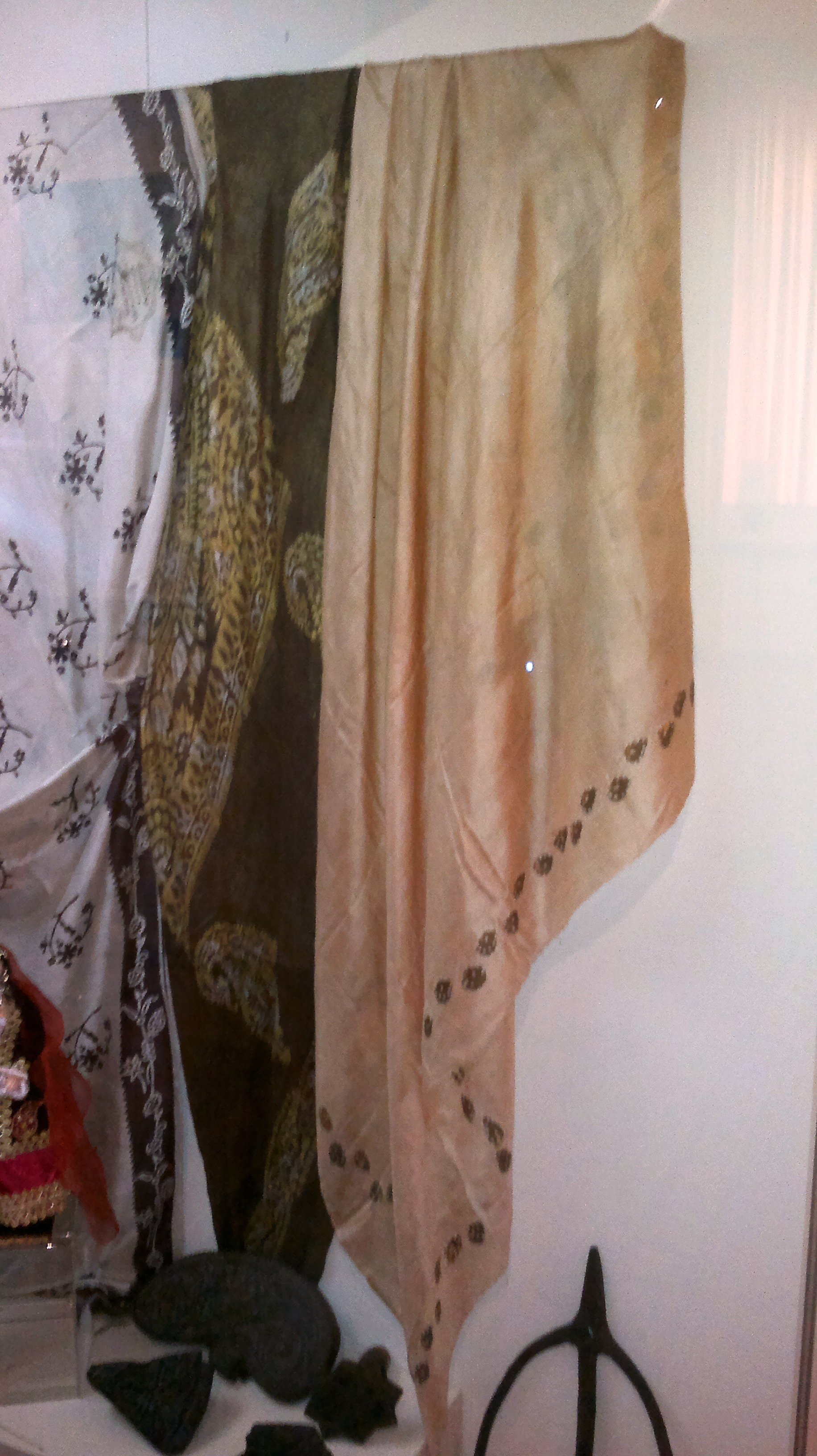 Kalaghais and tools fortheir designes in Museum of History of Azerbaijan. 19th century, Azerbaijan.